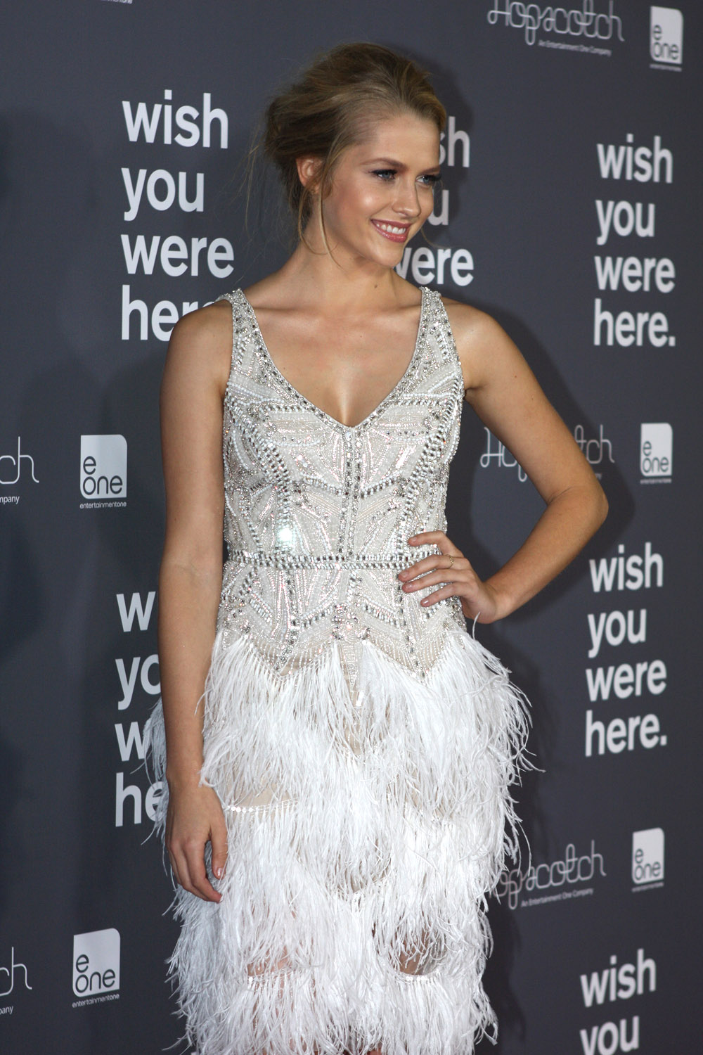 Teresa Palmer at Wish You Were Here Premieres At Entertainment Quarter Hoyts, Moore Park, Sydney